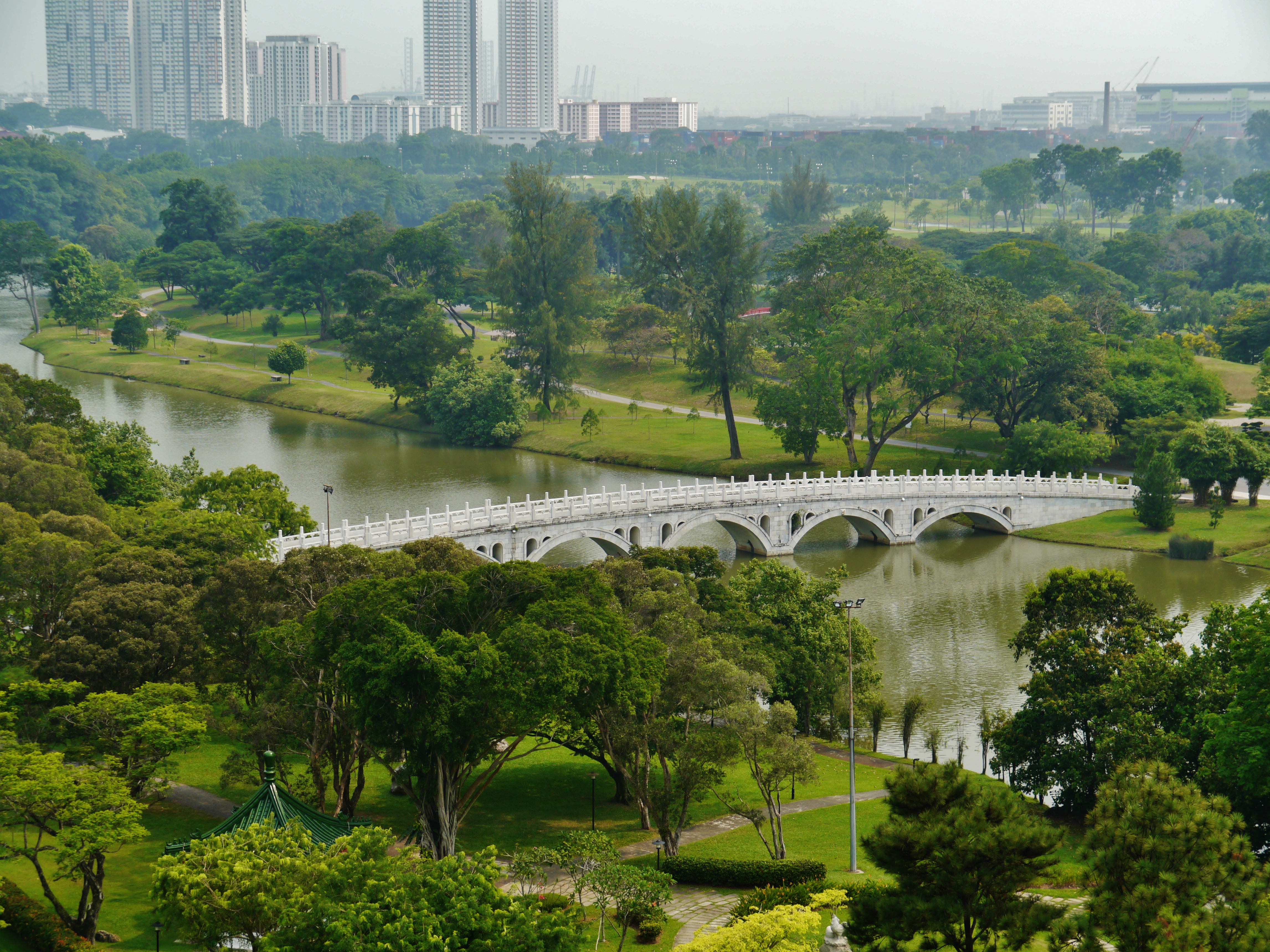 View from the Pagoda of the Chinese Garden to the Bridge between Chinese and Japanese Garden, Singapore